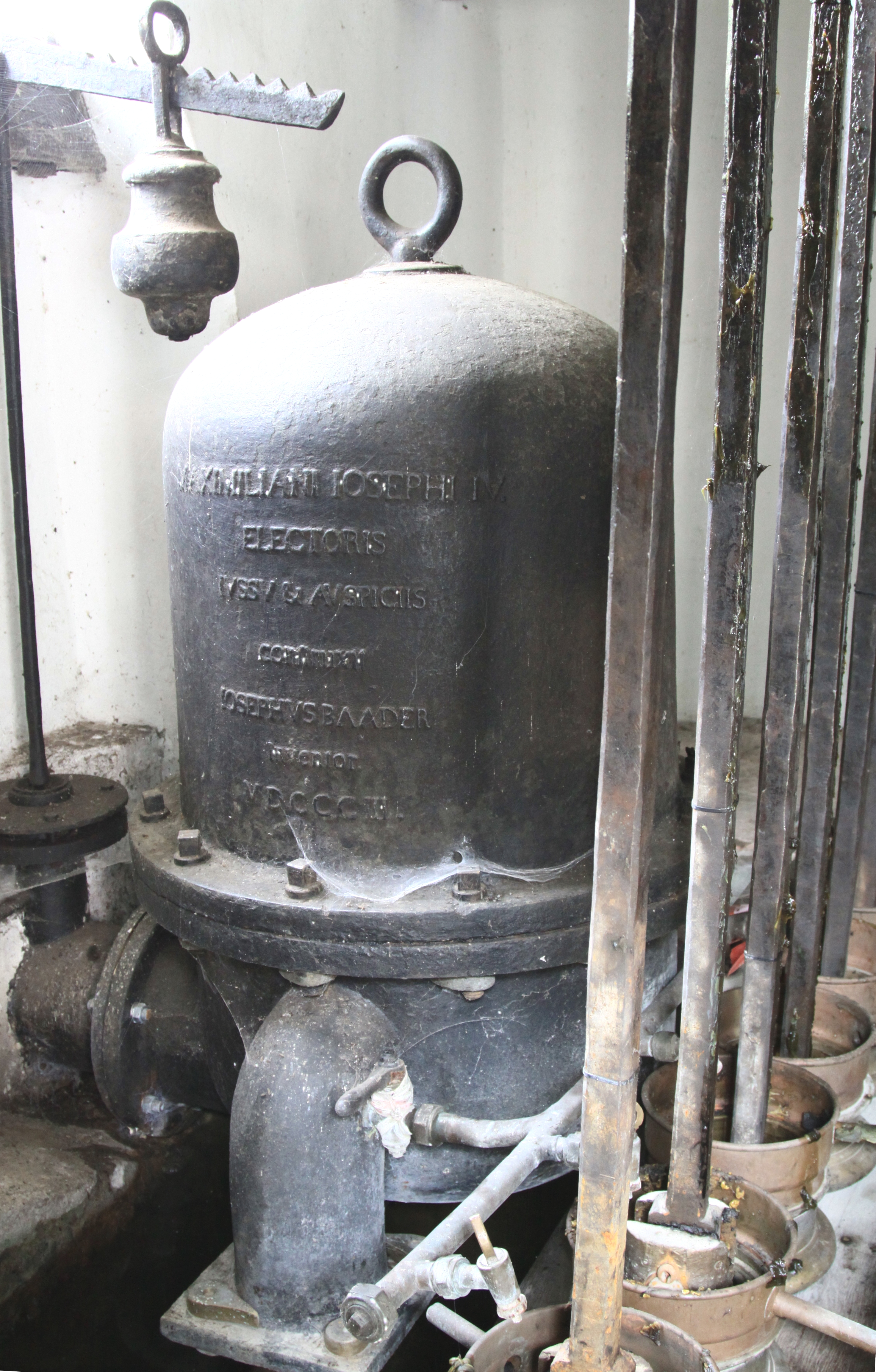 Air vessel of 1803 in the fountain house of the Nymphenburg palace garden. To the left is the outlet valve controlled by a balance weight. To the right are some of the pump plungers.